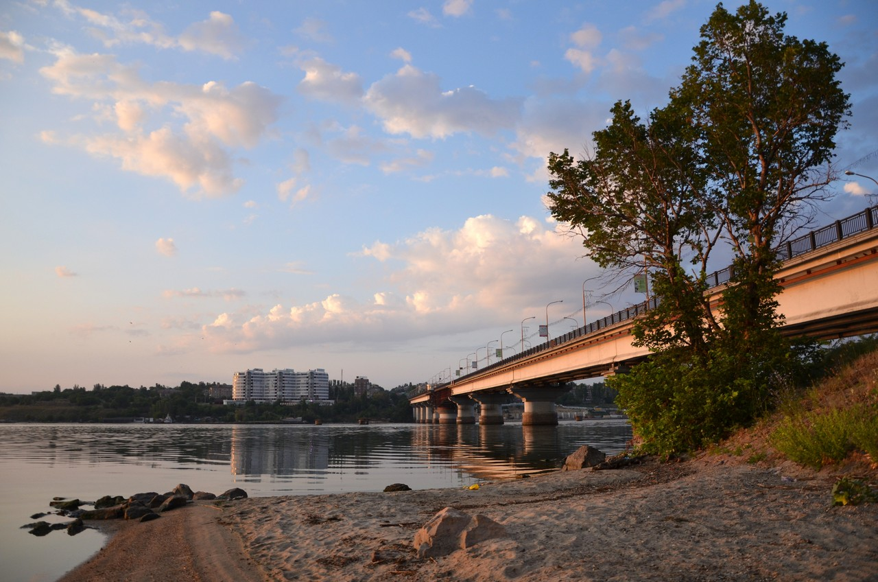 Миколаївська весна у Вікіпедії